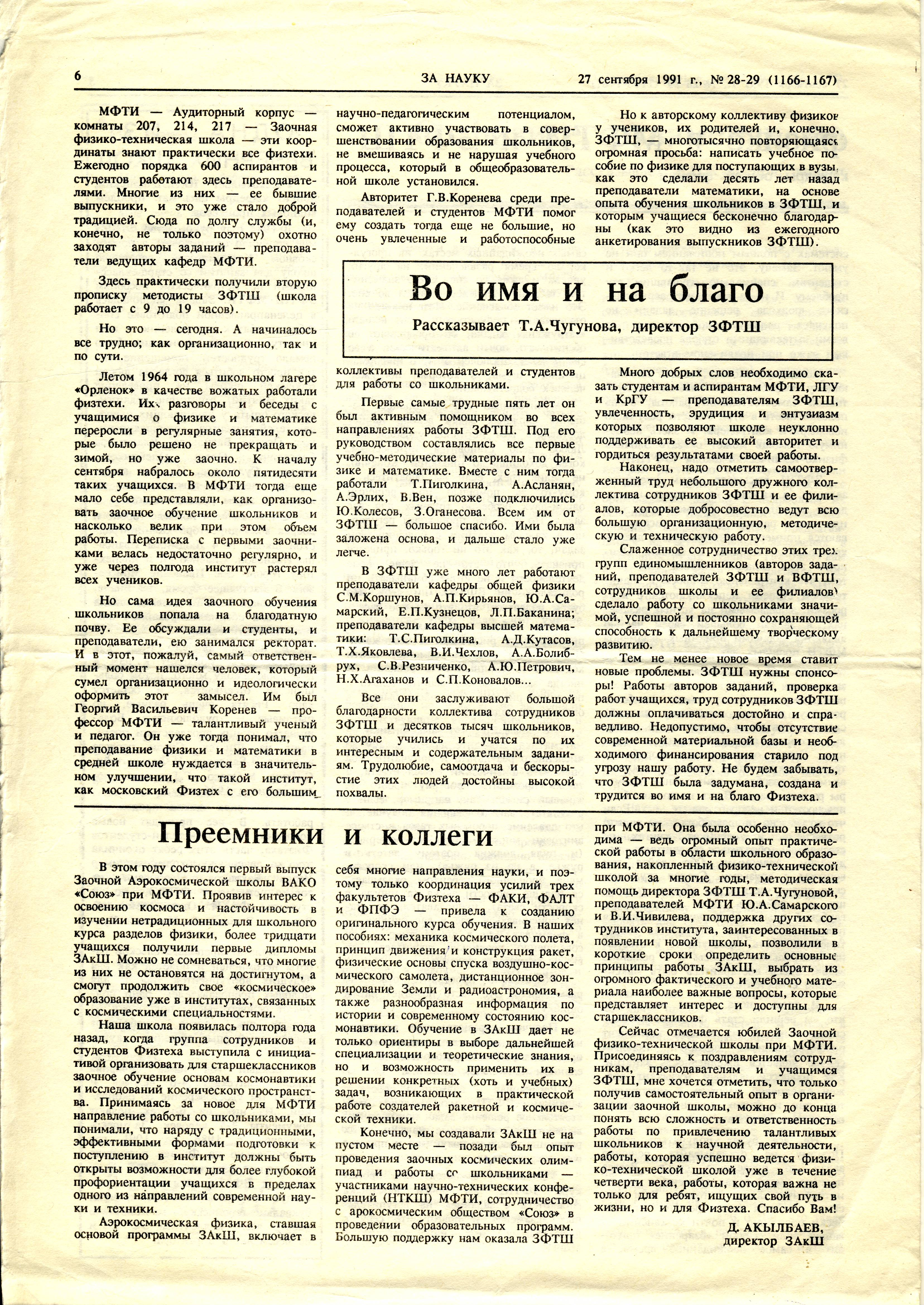 T.A.Chugunova recollects about creation of school for talented high school students